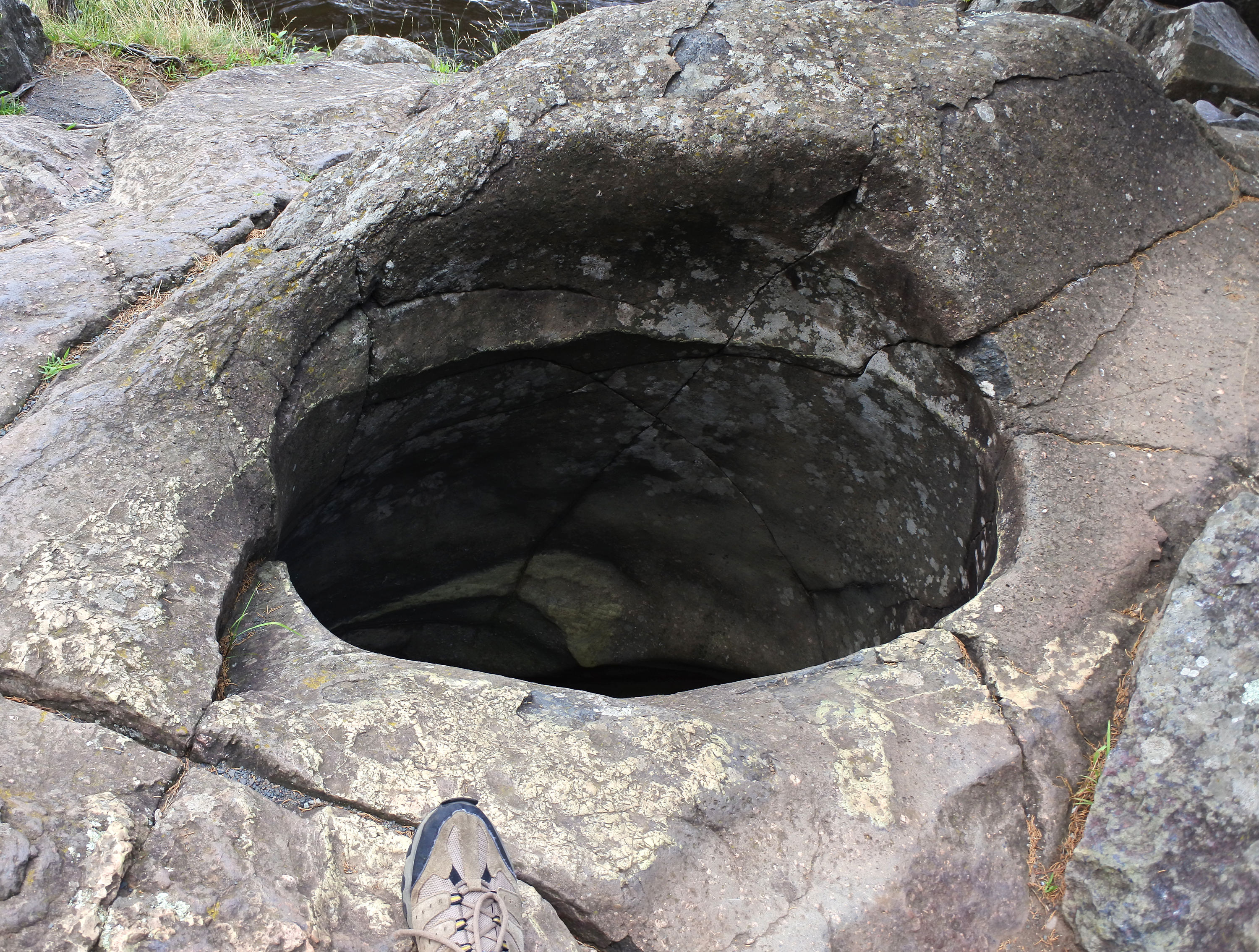 Glacial pothole in basalt on the St. Croix River at Interstate State Park, Wisconsin.